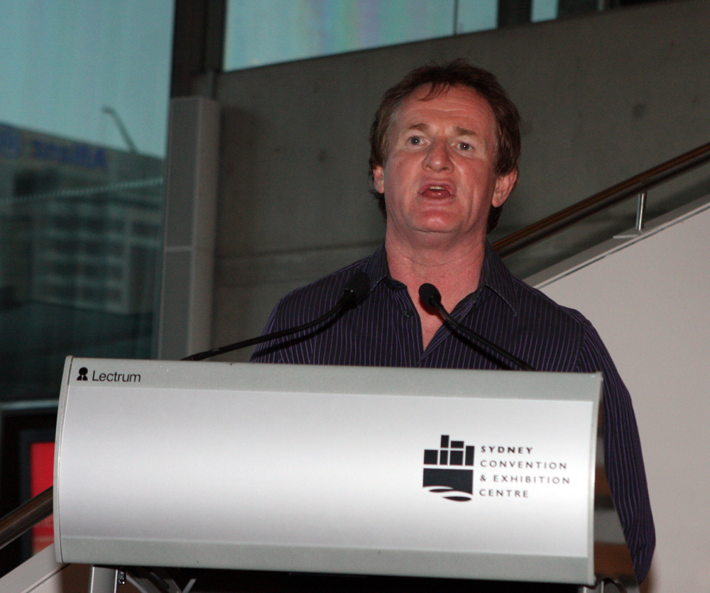 SEXPO – Sexuality and Adult Lifestyle Exhibition is the worlds largest adult show. Sexpo boasts international performers in all aspects of adult entertainment. The aim of the exhibition is to provide a fun vibrant atmosphere for like minded people - to enjoy and find information on ALL THINGS ADULT. Sexpo is not just about SEX, it is about sexuality and adult lifestyles. At SEXPO you will find hundreds of exhibitors, and there is something for everyone. If you are looking for that fun, different or even special gift for a friend or loved one. You will find it all at SEXPO. Our entertainment is second to none, with our international pornstars, male and female HOT bodies, hypnotists, comedians, lingerie parades and our WORLD FAMOUS AMATEUR STRIP! SEXPO provides all their patrons with the opportunity to mix in a bit of shopping and socialising with world class entertainment thrown in – what better way to spend a day/night out with friends or with your partner.